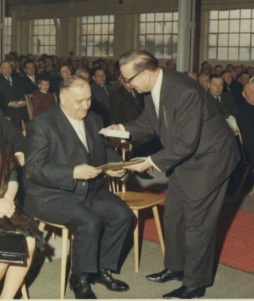 Michael Felke and the Bundesverdienstkreuz